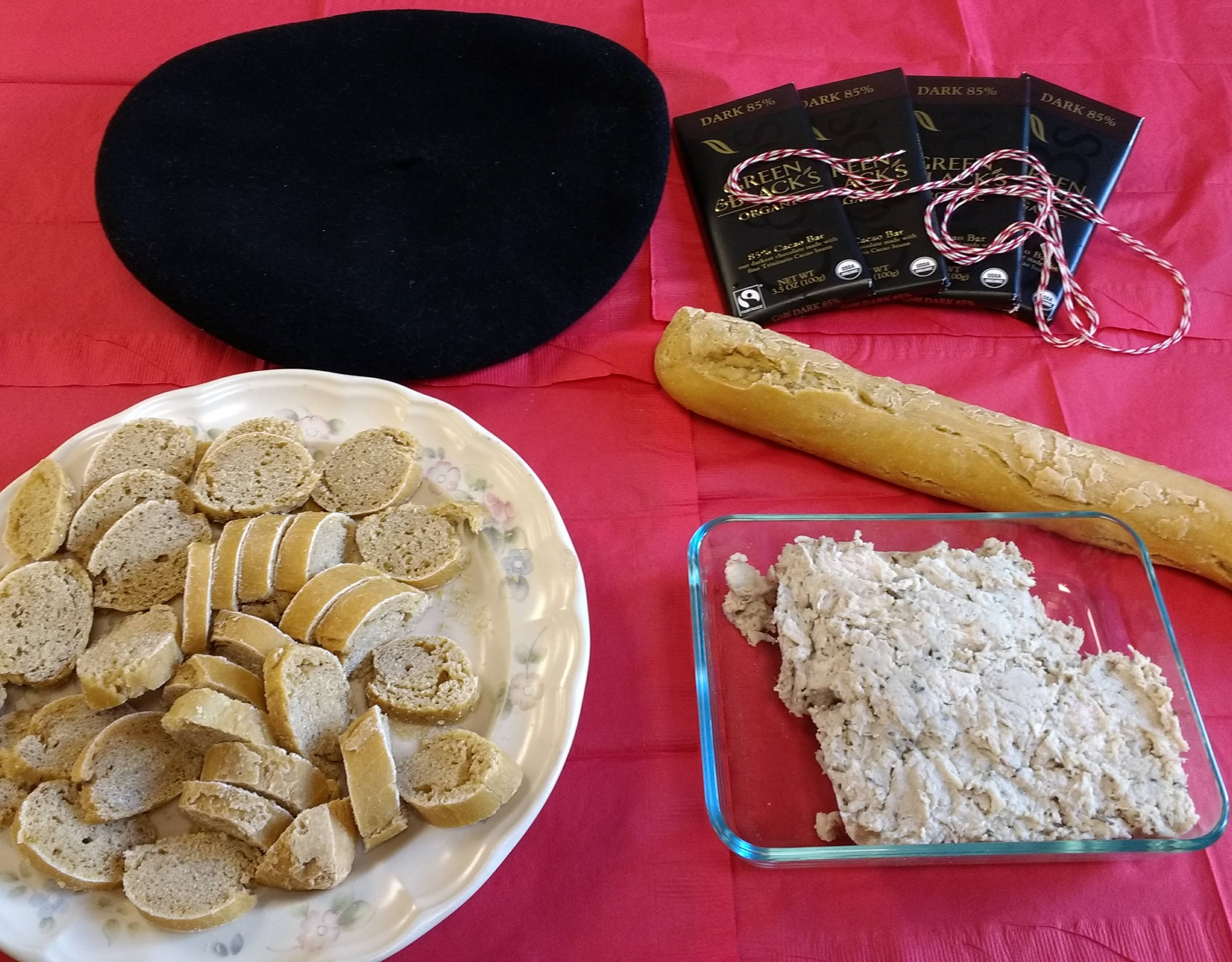 A traditional serving of rillettes Le Mans with homemade bread and dark chocolate.